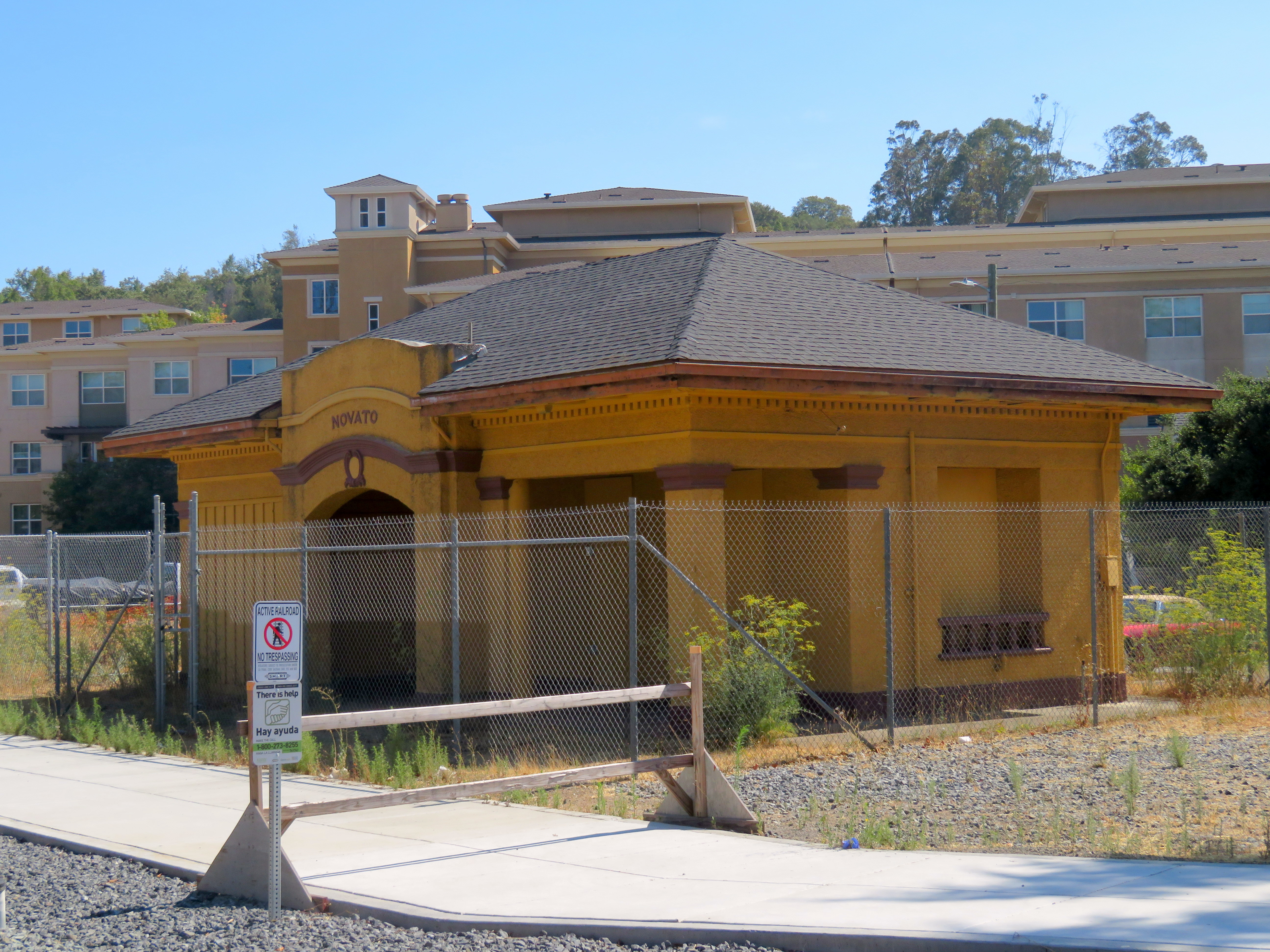 The former Novato station in August 2018